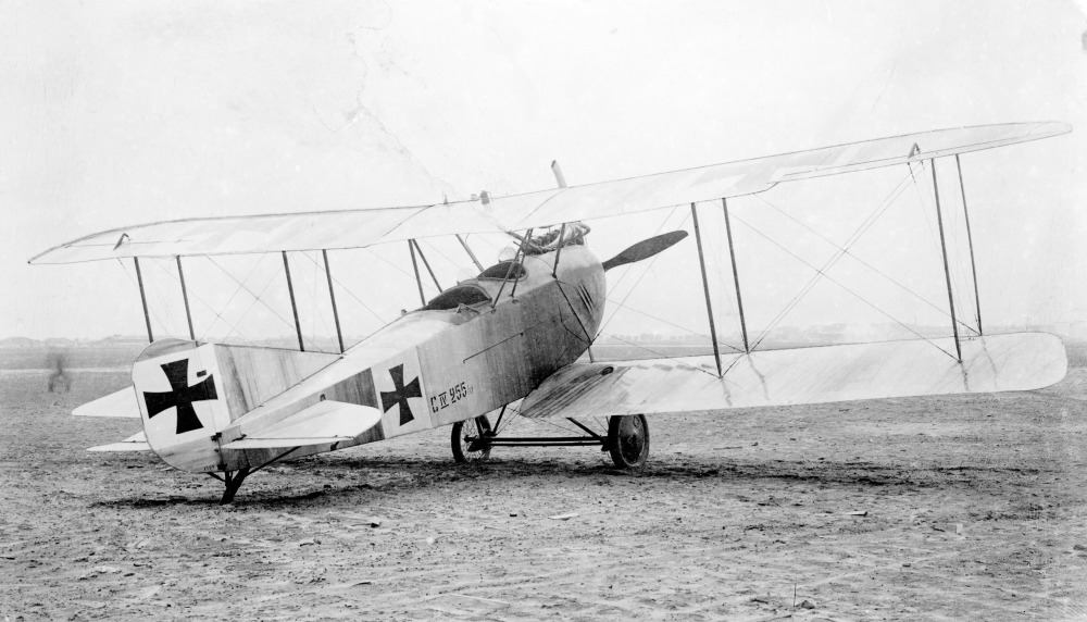 AEG C.IV 1917